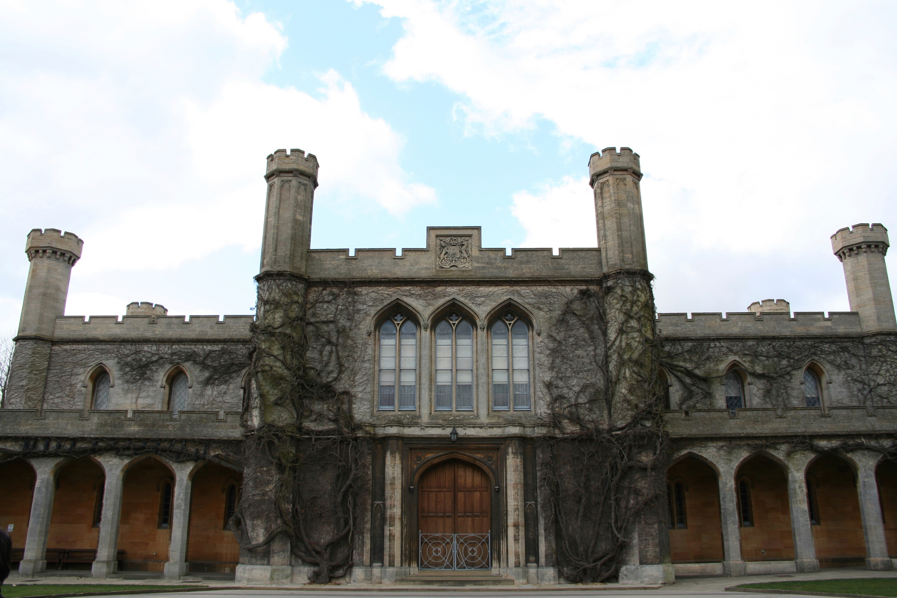 ASSIZE COURTS Wikidata has entry Q17548921 with data related to this building.